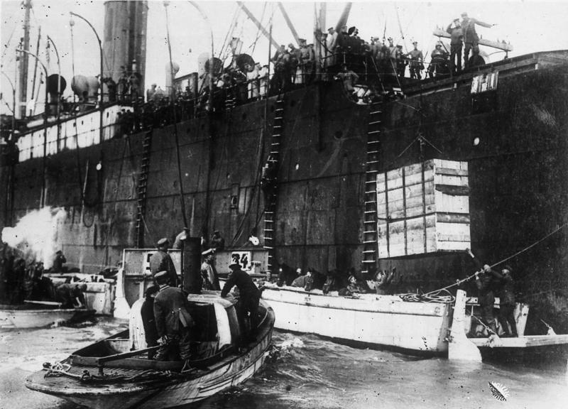 Disembarking stores from ships taking part in the operations against the island of Oesel.